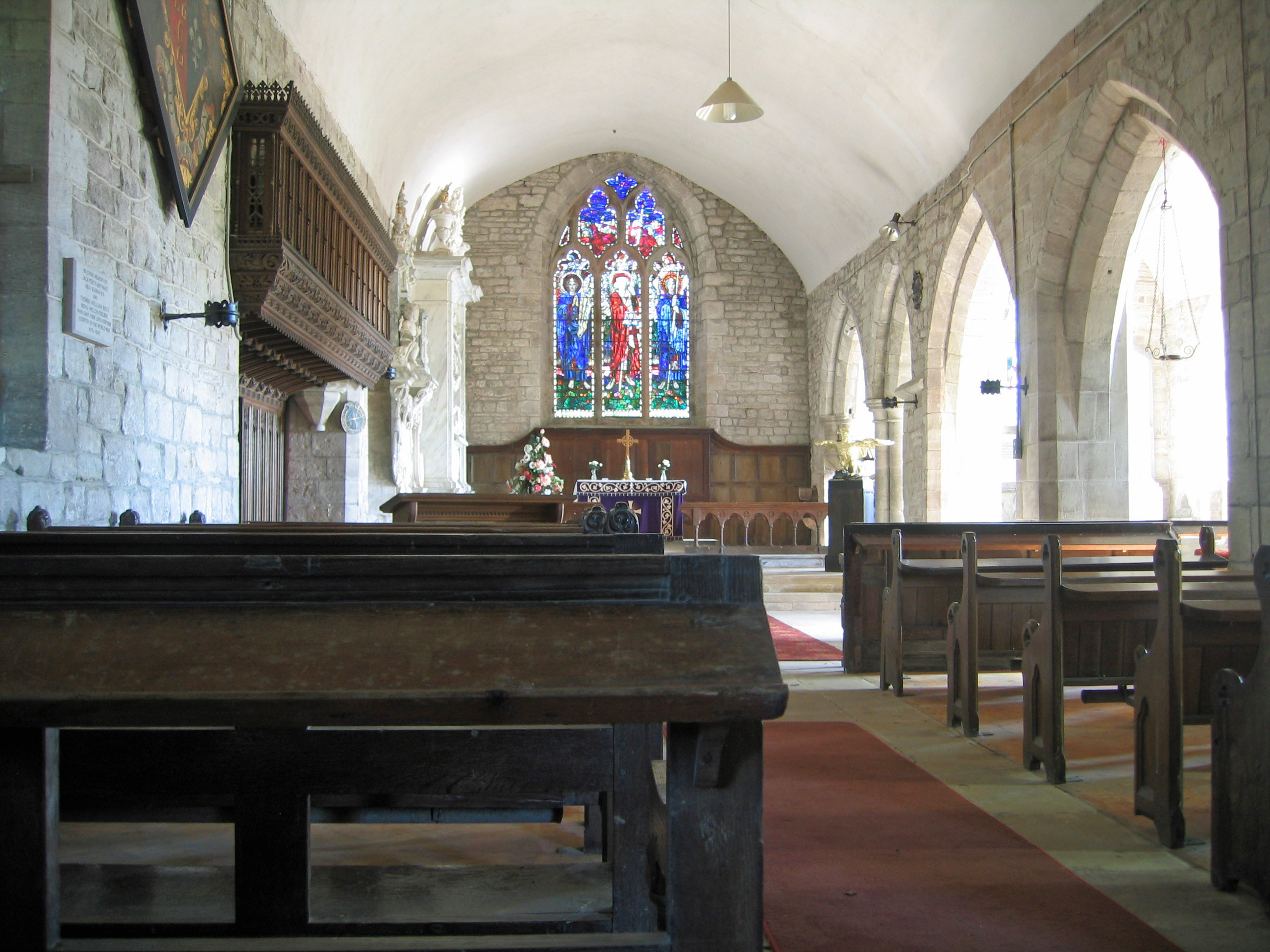 Photograph of the interior of St Cuthbert's Church, Holme Lacy